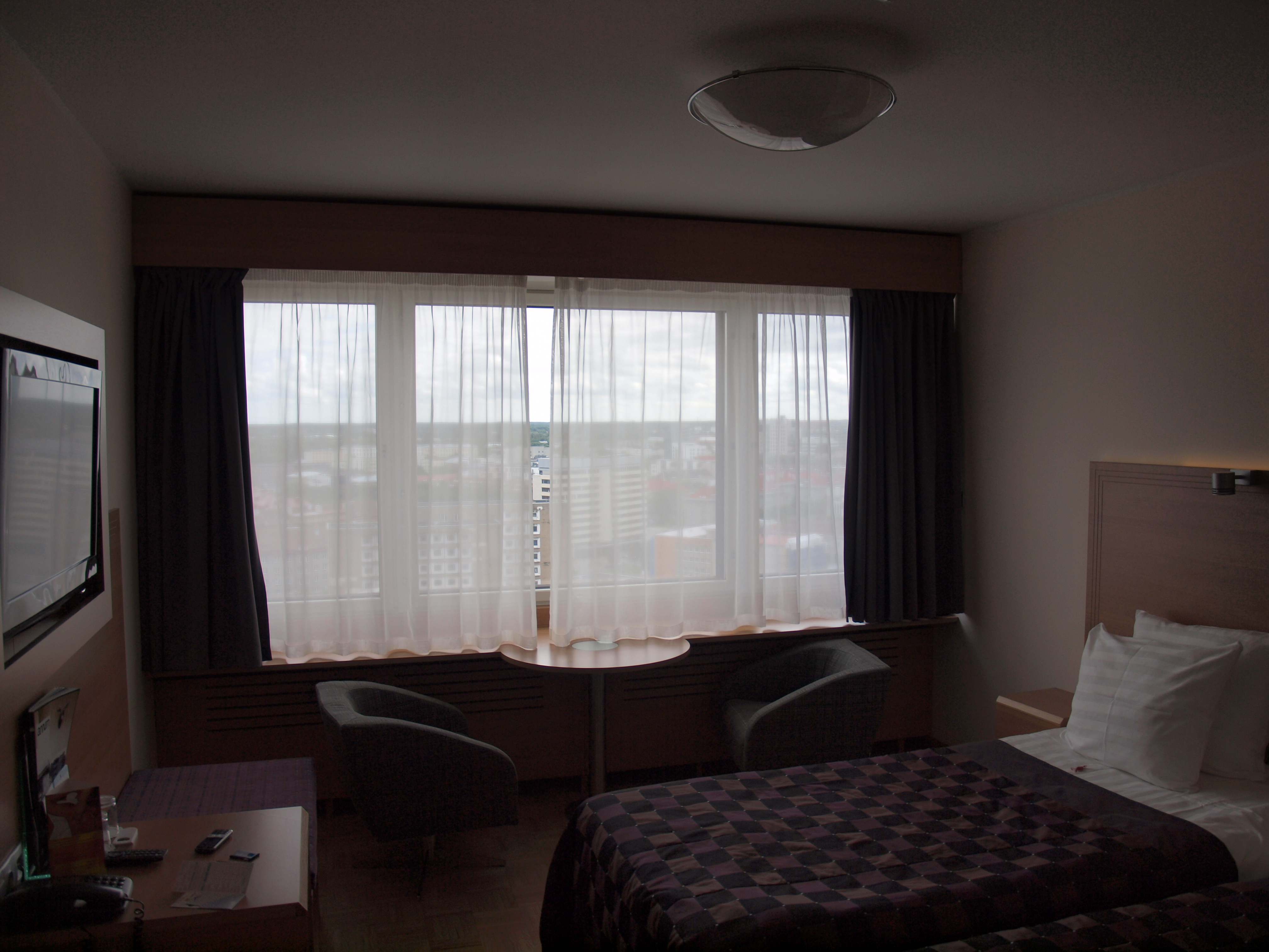 The interior of a standard issue double room at Sokos Hotel Viru, Tallinn, Estonia.